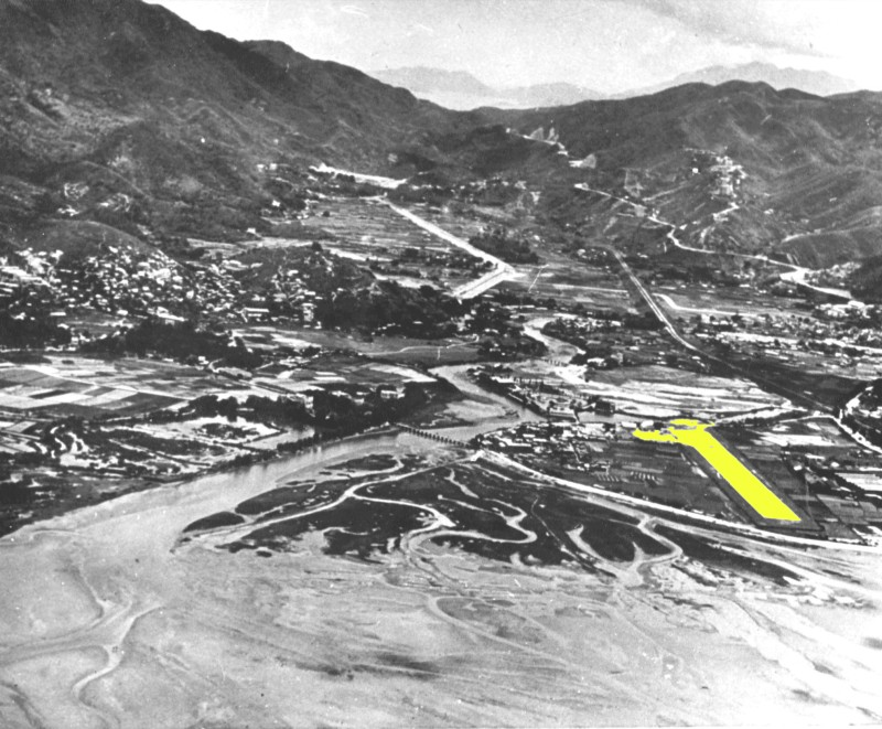 Runway, Sha Tin Airfield, Royal British Airforce, New Territories, Hong Kong. (1950-1970) 中文（香港）: 英國皇家空軍，香港，新界，沙田軍用機場，跑道